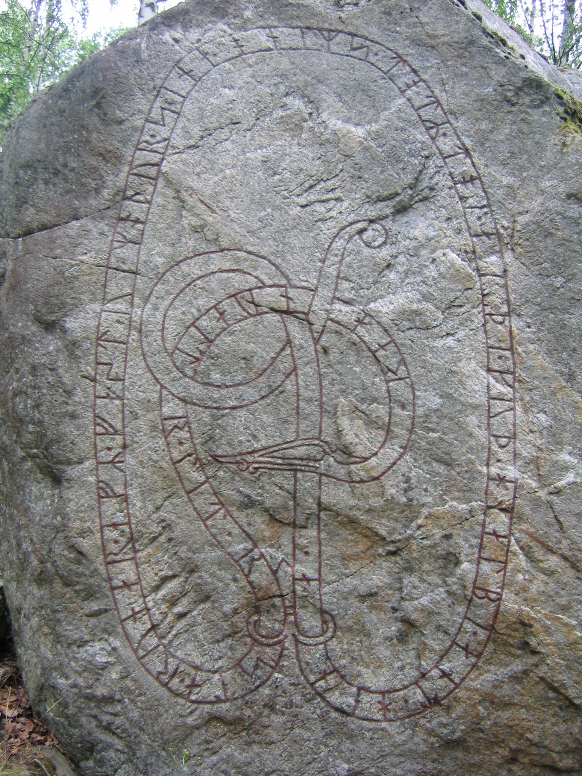 Side A of runestone U 112 at an old riding path near Ed church in Uppland, Sweden.